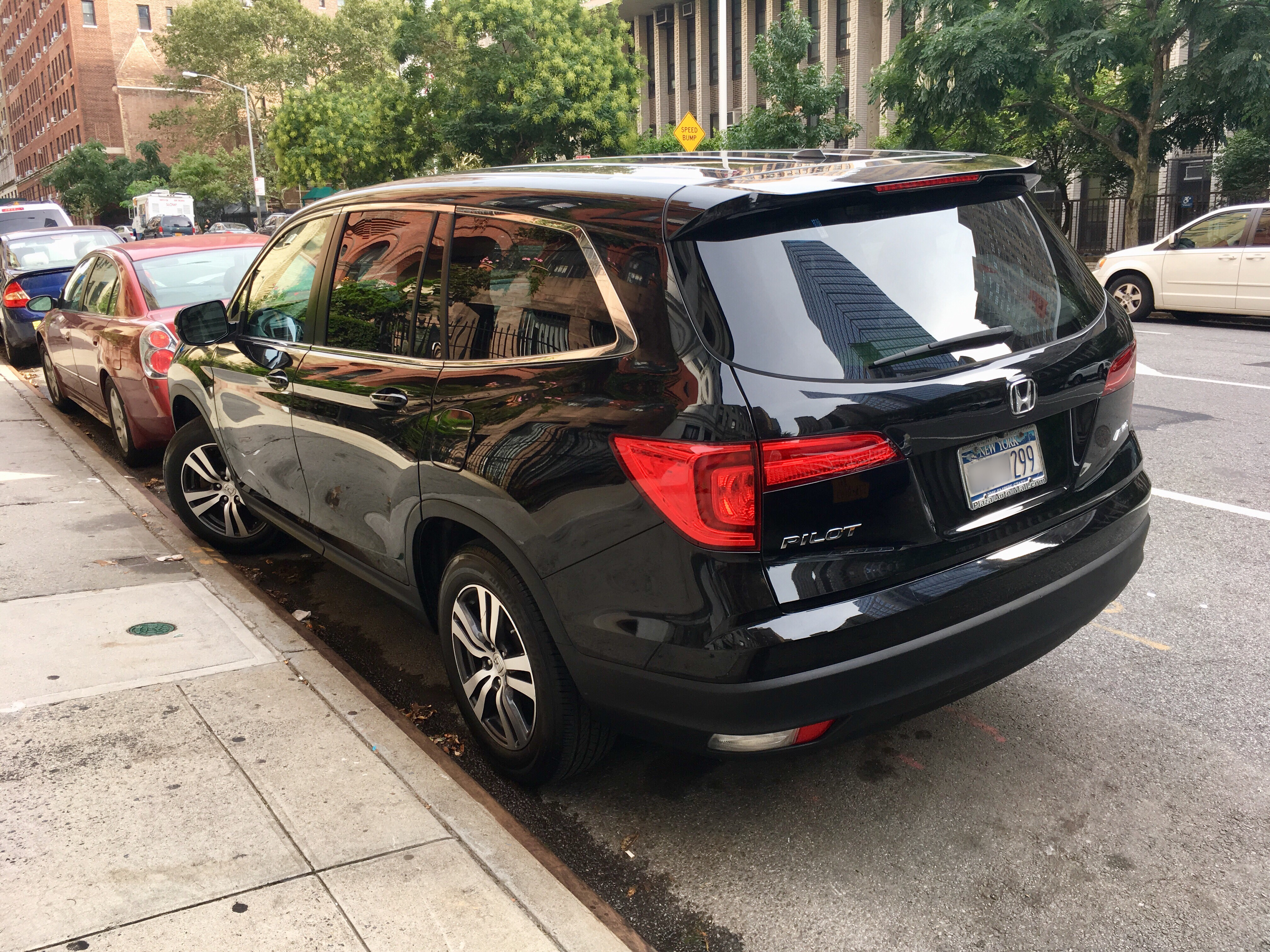 Honda Pilot (rear view)